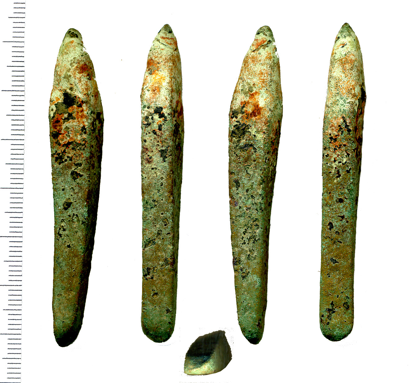 Early Middle Bronze Age (c. 1500 to 1300 BC) cast copper Chisel. [1]